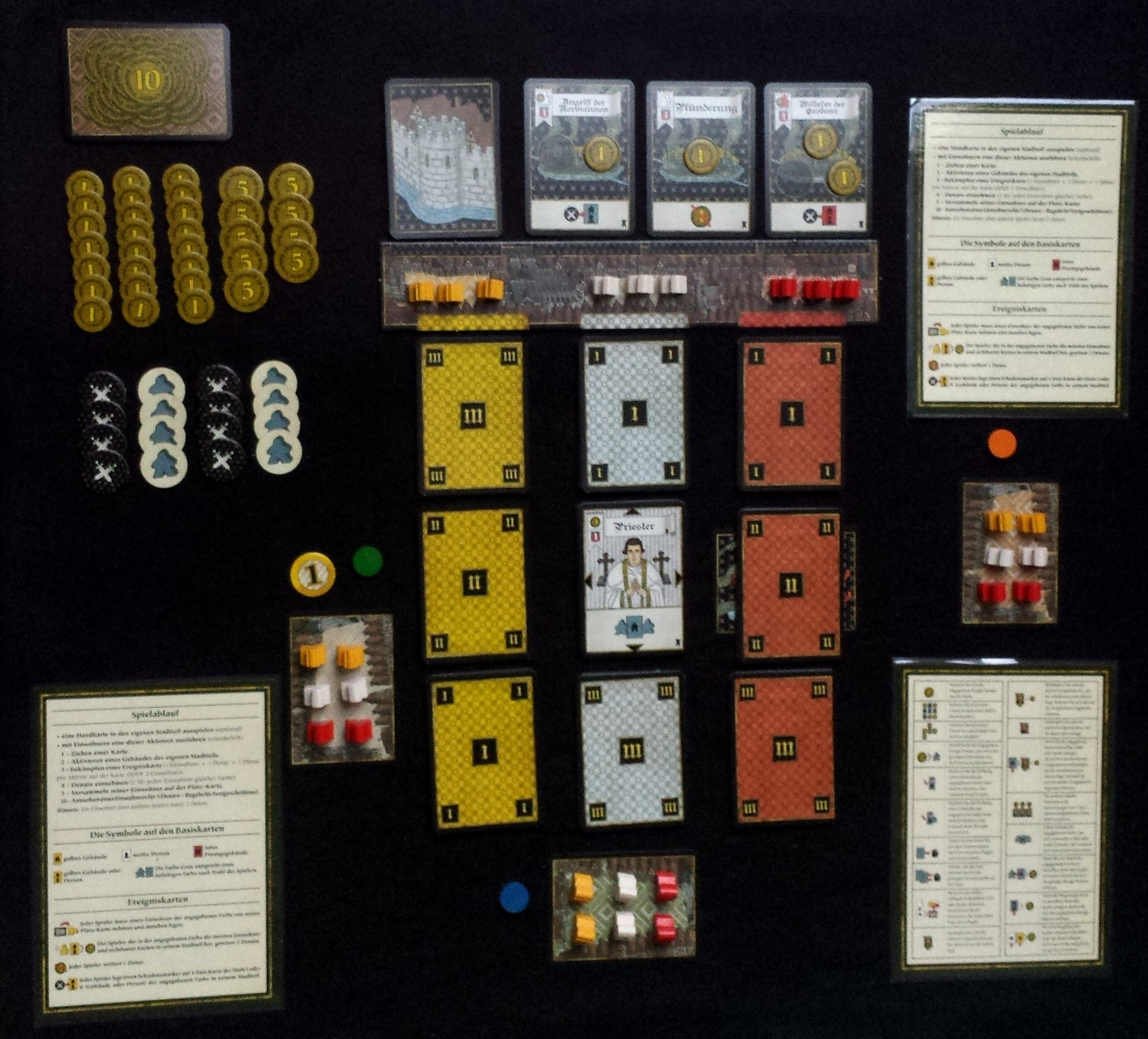 Tournay (game presentation)